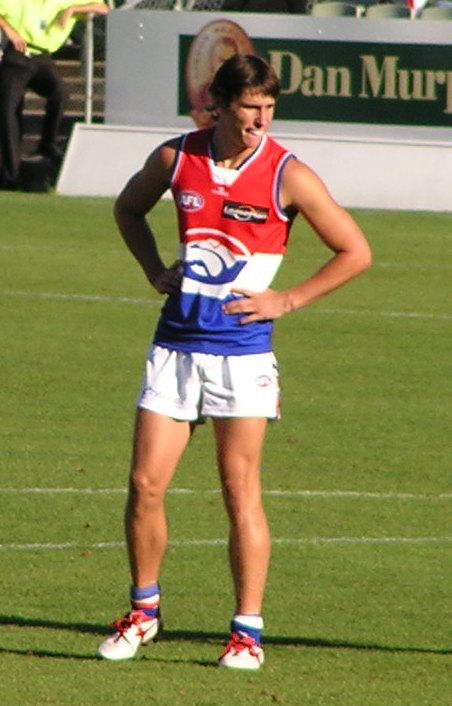 a picture of Ryan Griffen